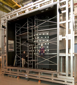 LHCb RICH-2 detector